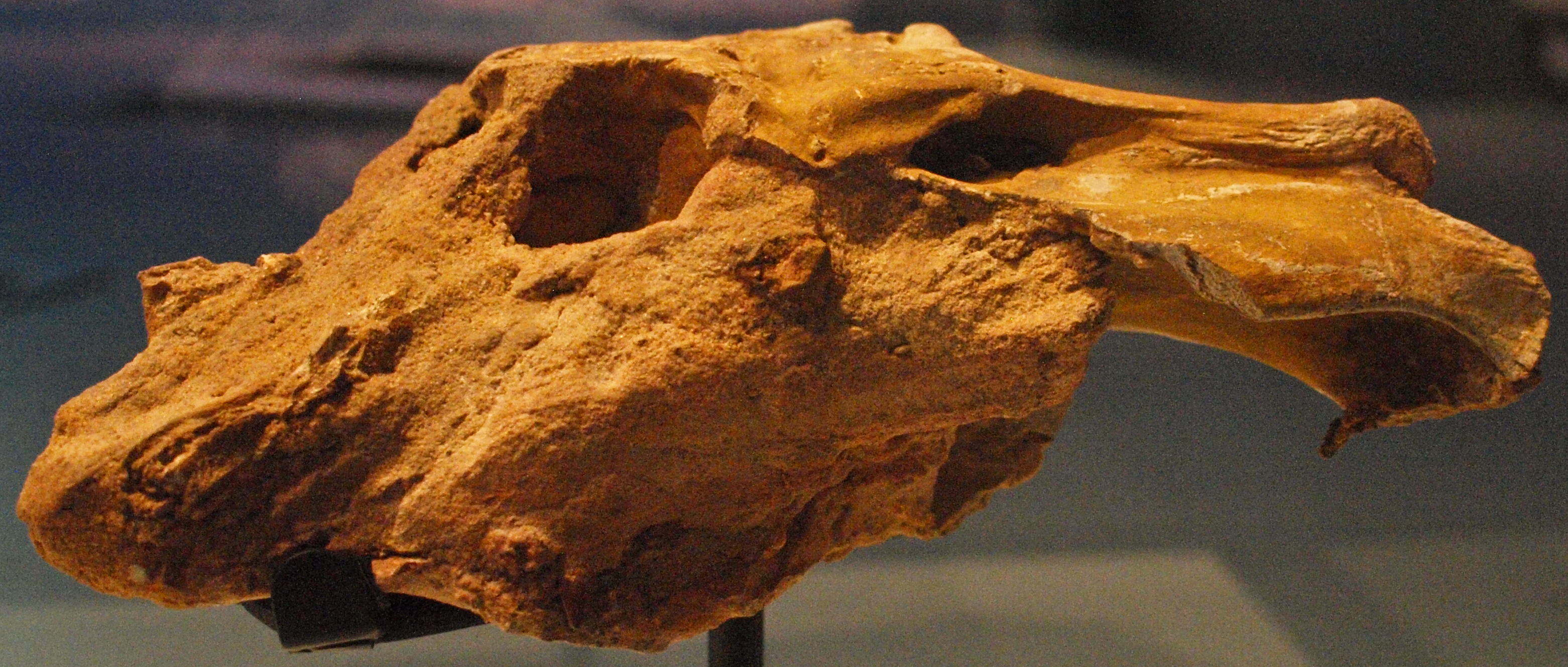 Aegisuchus witmeri Skull on Display at the Royal Ontario Museum (ROM 64736)